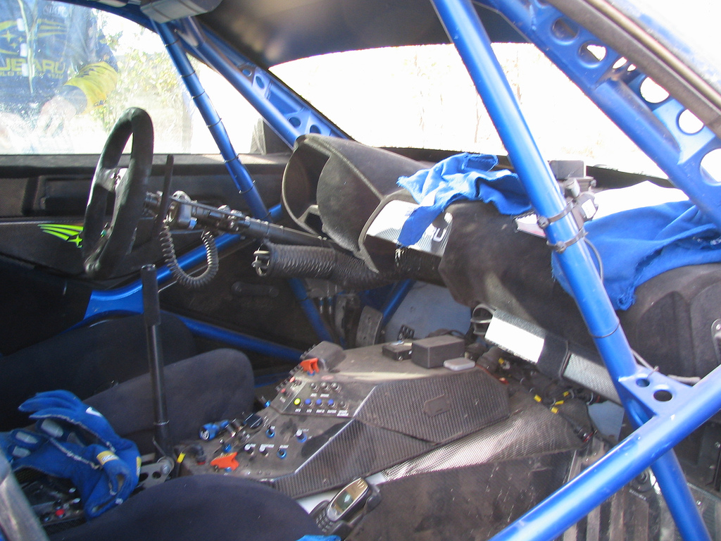 The cockpit of Petter Solberg's Subaru Impreza WRC during the 2006 Rally Argentina.